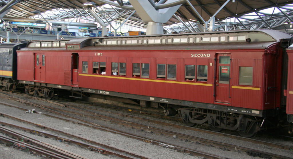 Clerestory roofed Victorian Railways E type carriage 1BCE as preserved by Steamrail Victoria